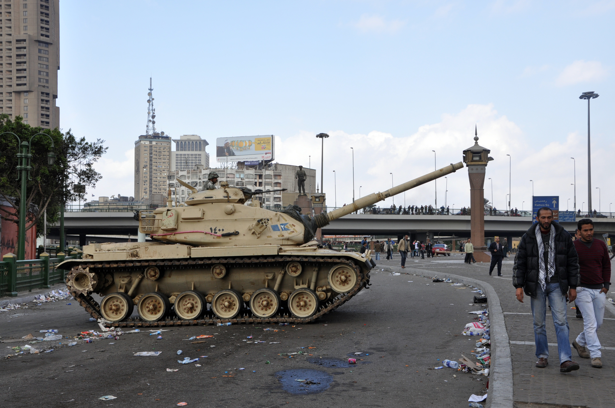 An M60 Patton downtown Cairo